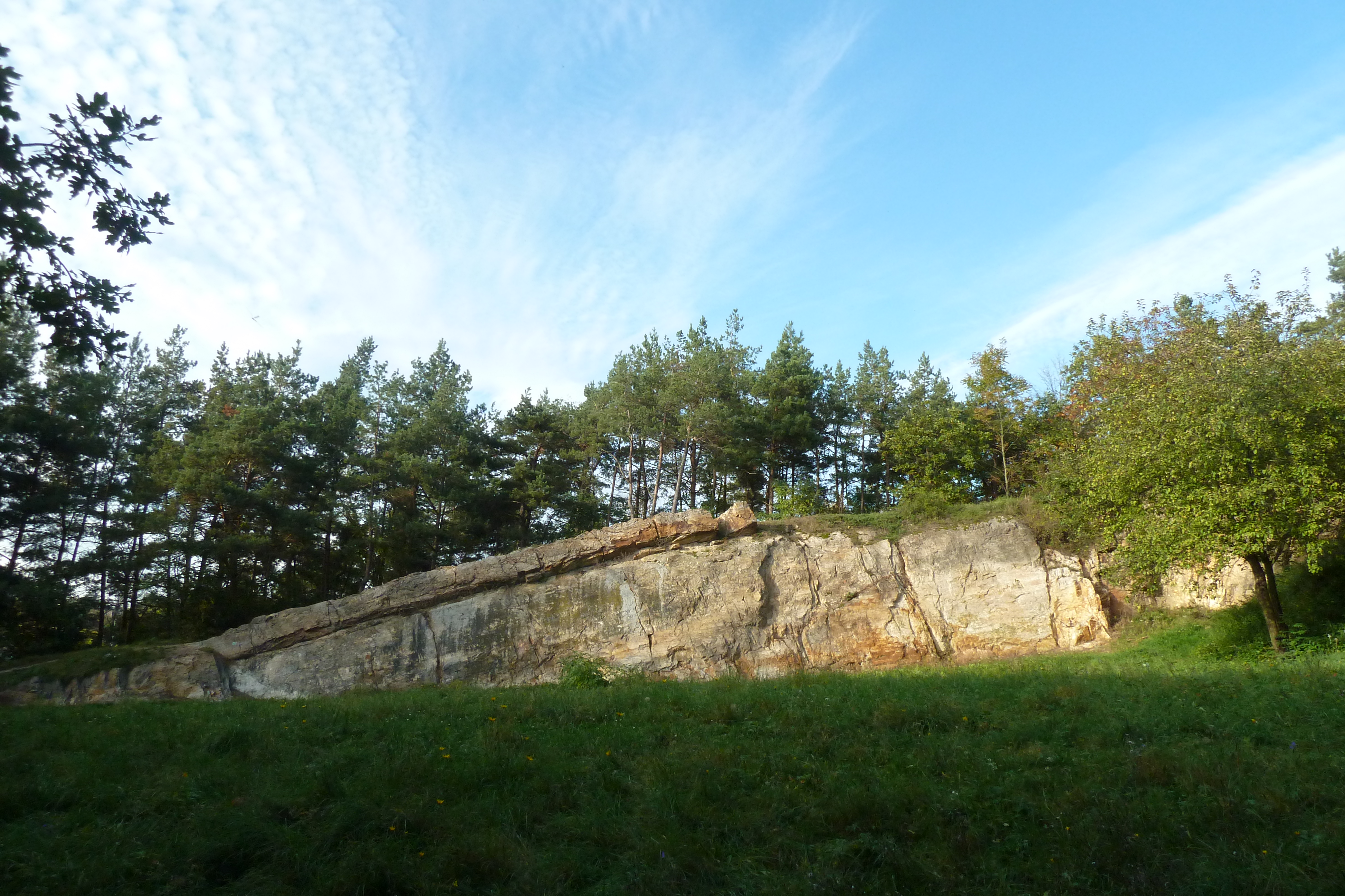 Rohoznik quarry near Dubec